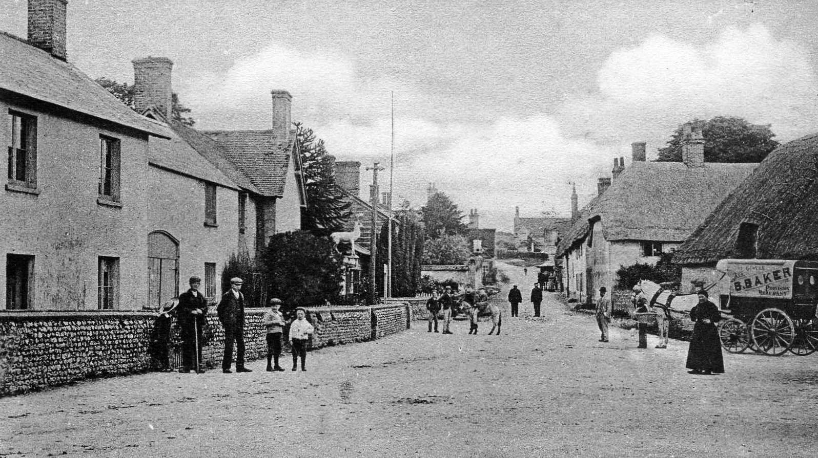 Postcard of Milborne St Andrew circa 1905.